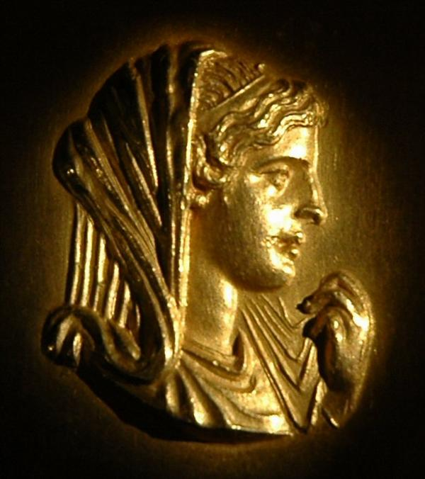 Portrait of Olympias, mother of Alexander the Great, on ancient coin